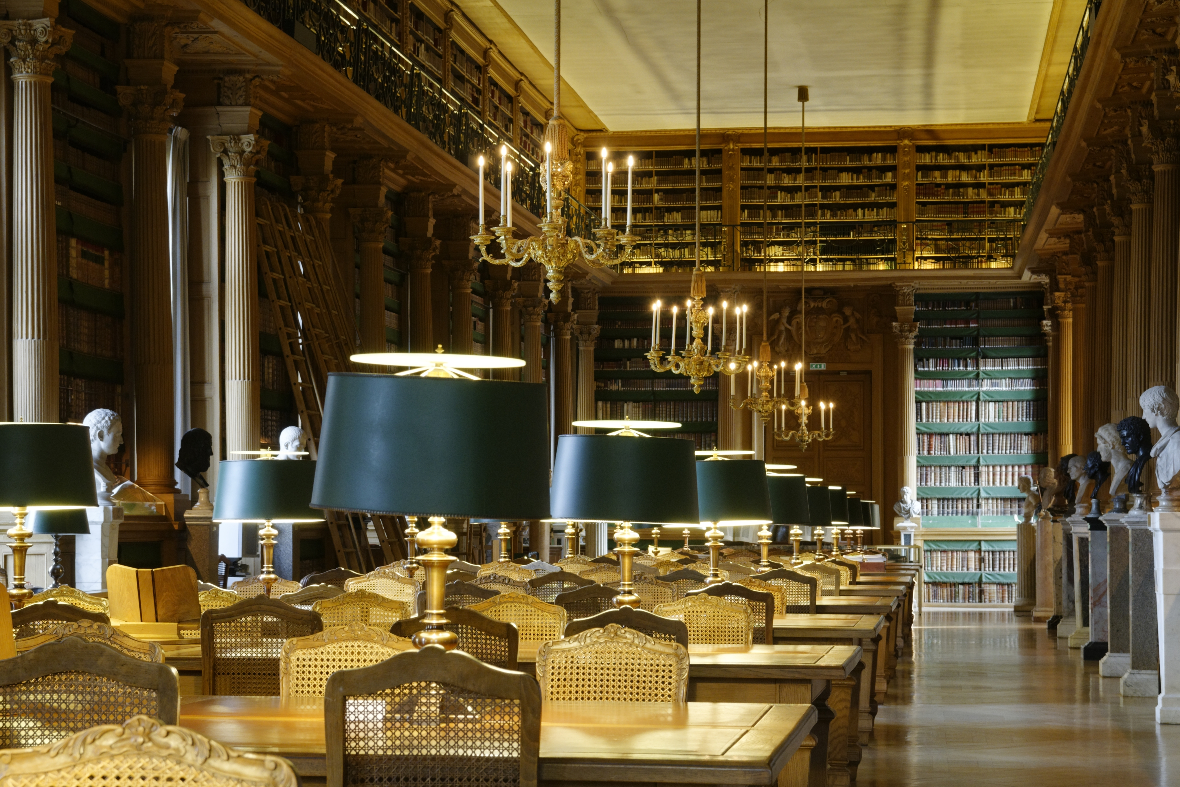 Reading Room of the Bibliothèque Mazarine, Paris.